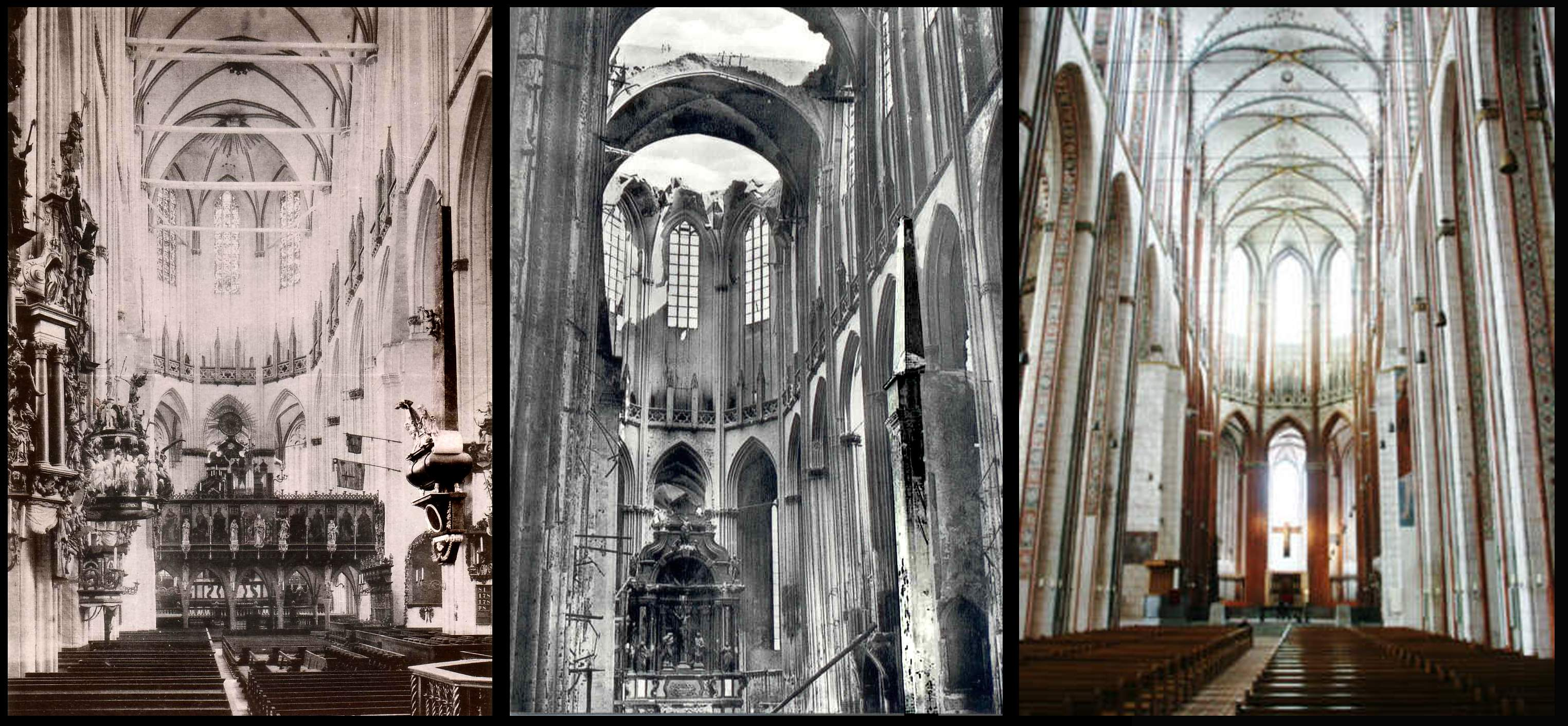 Interior of St. Mary's Church in Lübeck before and after the RAF air raid during the night of Palm Sunday 28/29, March 1942. The picture in the right shows the Church after its reconstruction. On the second southern pillar of the northern side stood the black obelisk with the sarcophagus and the coat of arms of mayor Johann Ritter (1622-1700). The obelisk is still to be seen on the picture in the center.